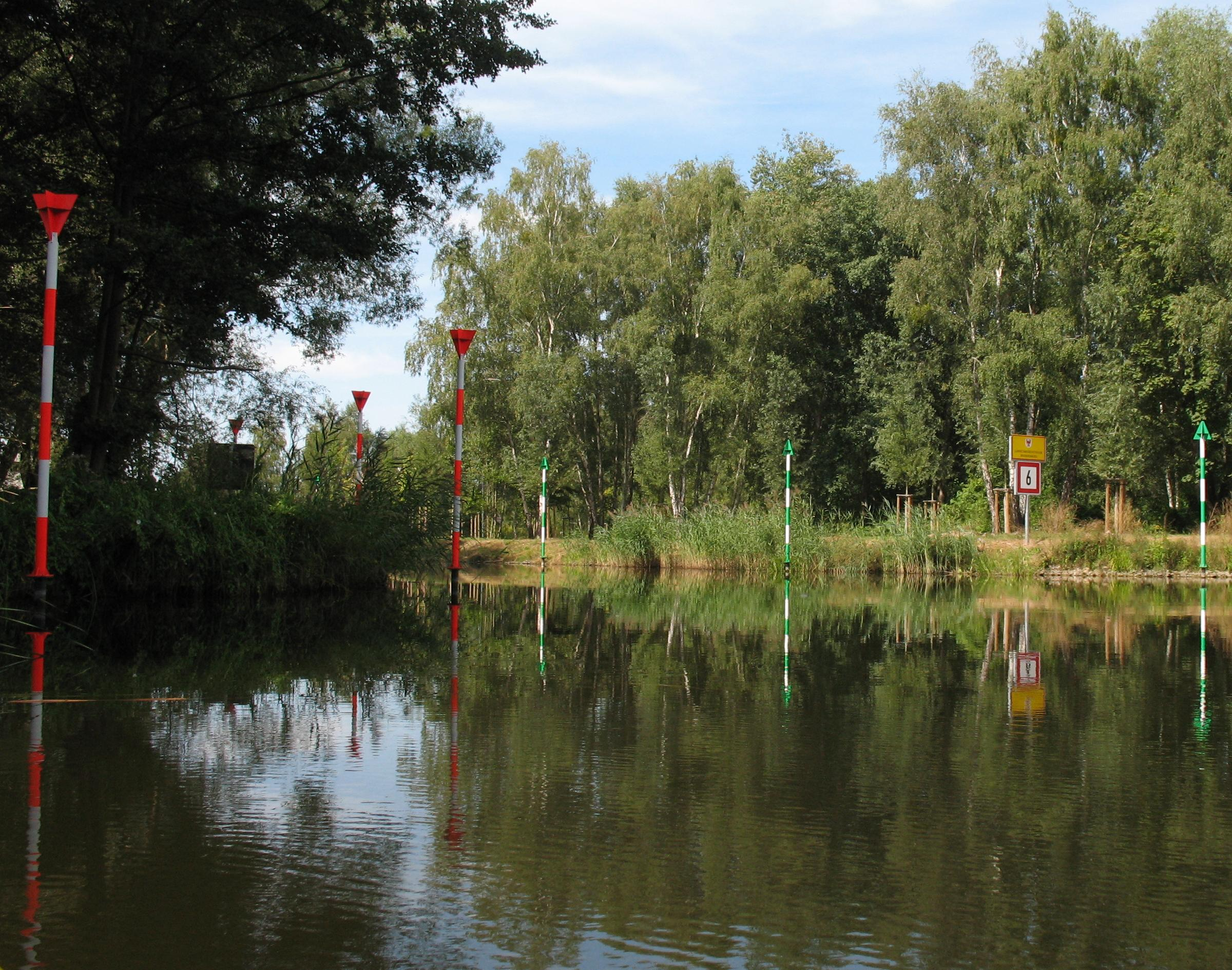 River Havel in Zehdenick in Brandenburg, Germany